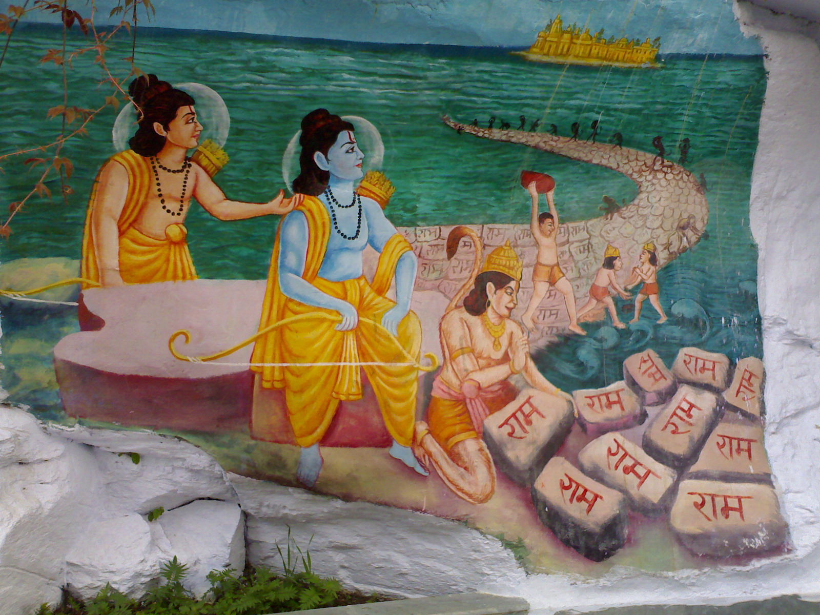 rock painting of Lord Rama